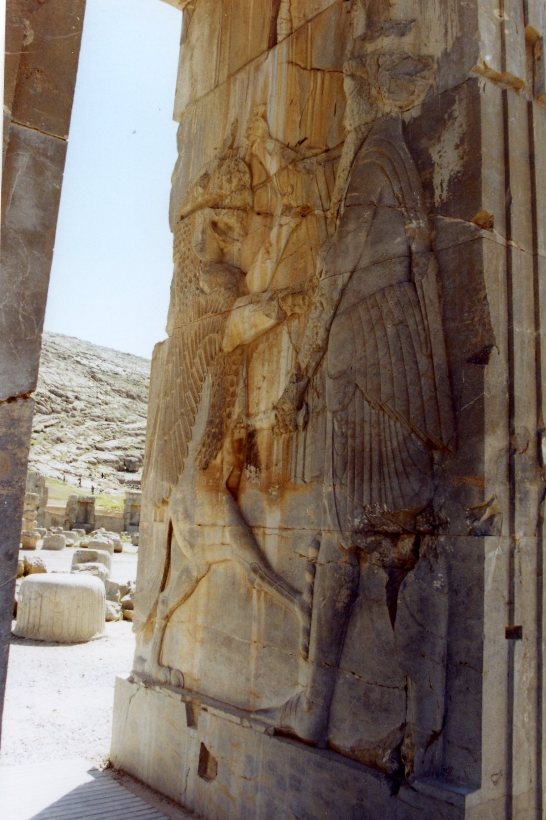 Relief from the Tachara, King Darius I fighting Evil Picture Taken by myself Persepolis Iran April 2006